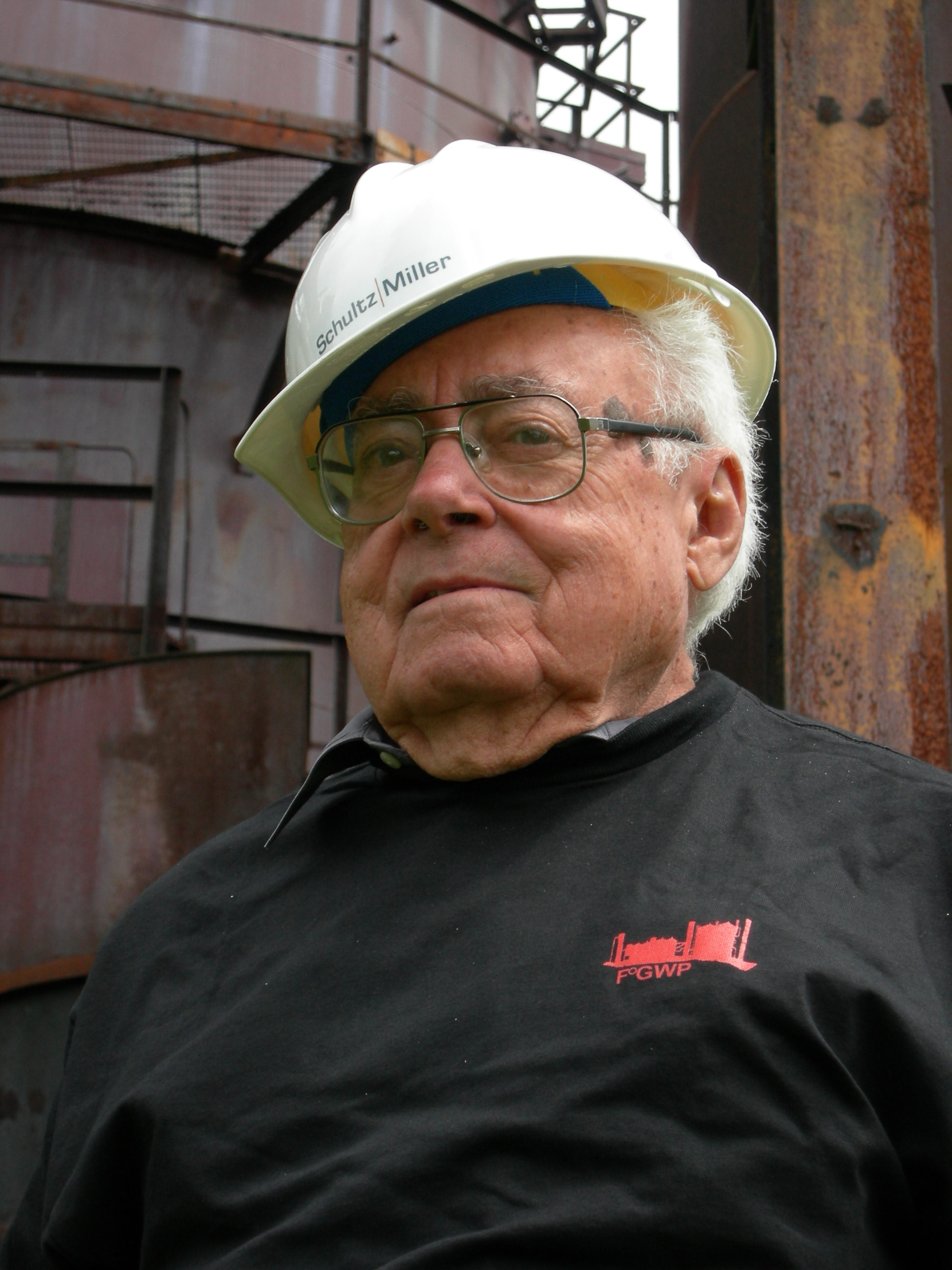 Landscape architect Richard Haag, designer of Seattle's Gas Works Park, photographed in the "forbidden zone" at the heart of the park (considered by the city to be too dangerous because of the towering structures of the old gas works), which was opened as a hardhat zone during part of the 2007 Fremont Fair. This picture was taken at that time. This is a raw image, and someone might improve it with some image processing. With a rare chance to take these pictures, I chose to "shoot away" and to upload pretty much everything I got. - Joe Mabel